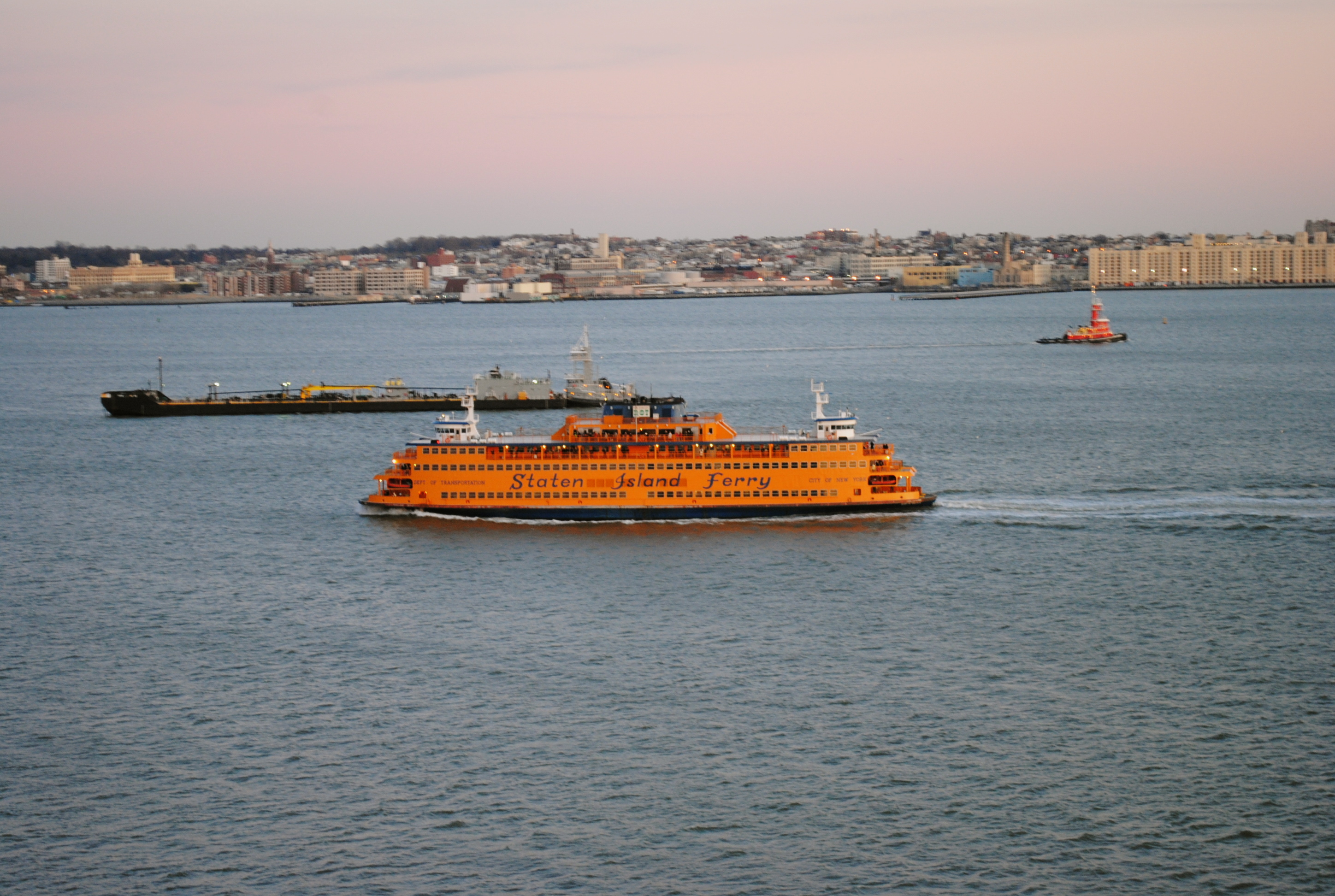 The Staten Island Ferry making its run.